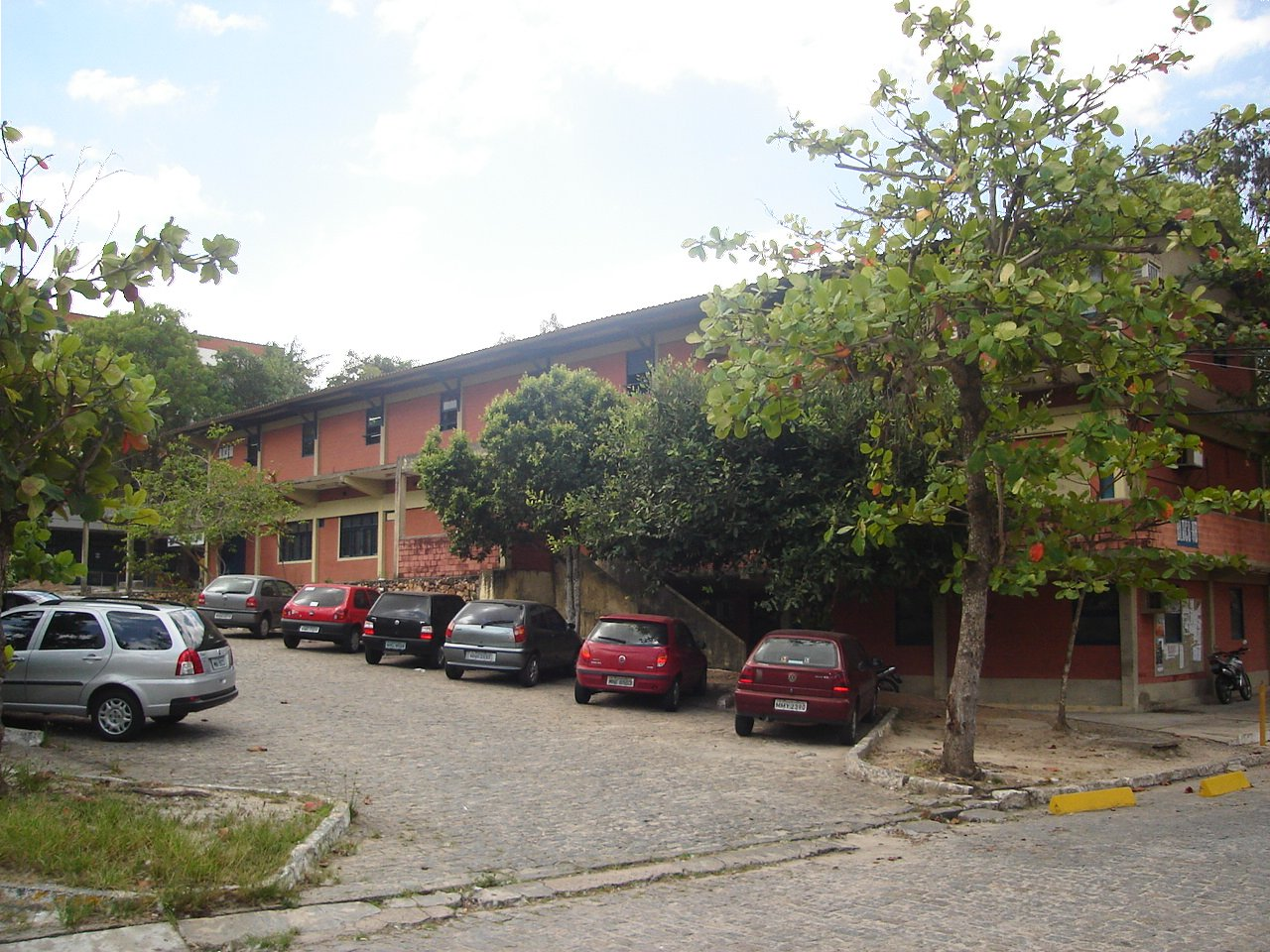 Federal University of Campina Grande Data Processing Center. The very first computer bought in the Brazilian Northeast Region was installed here. Campina Grande, Paraíba, Brasil